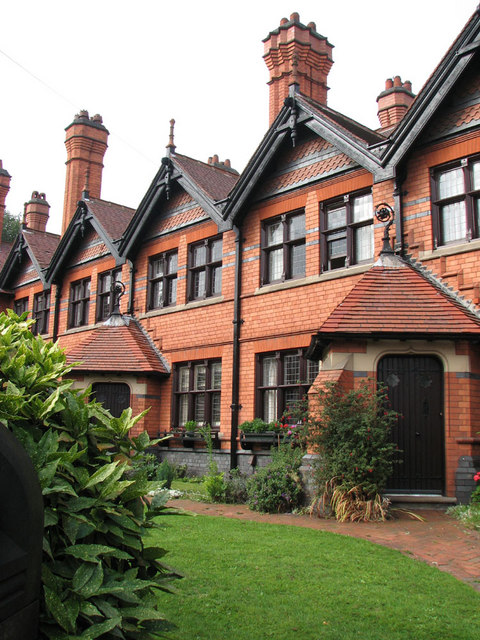 Norris Ladies' Home This is one of the less well-known buildings of the Victorian Nottingham architect Watson Fothergill. It stands at the end of Berridge Road.